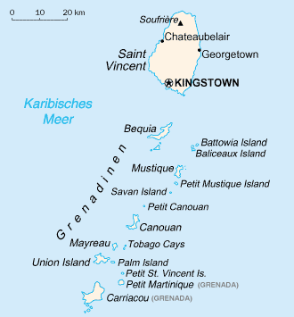 Map of the Grenadines from CIA World Factbook. The Grenadines are a Caribbean island chain that belongs to either St. Vincent and the Grenadines or Barbados.